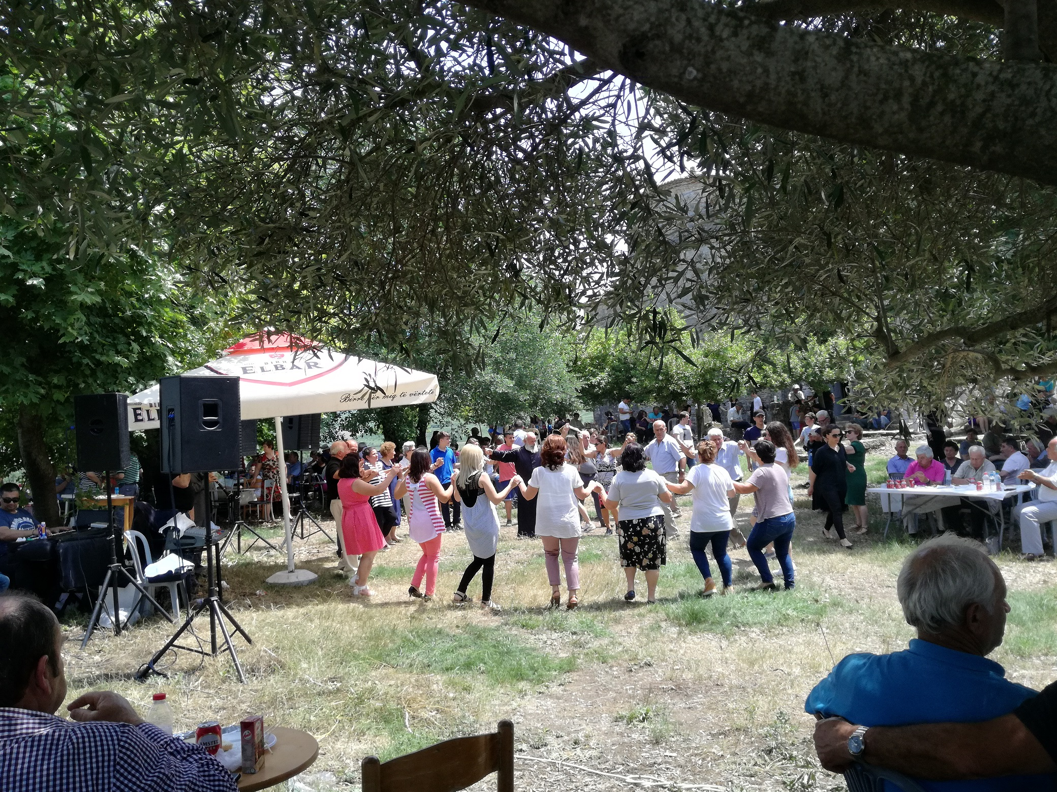 The Papas of Mesopotam's modern Orthodox church leading the dancing at the festival of St Nicholas on 20th May 2018